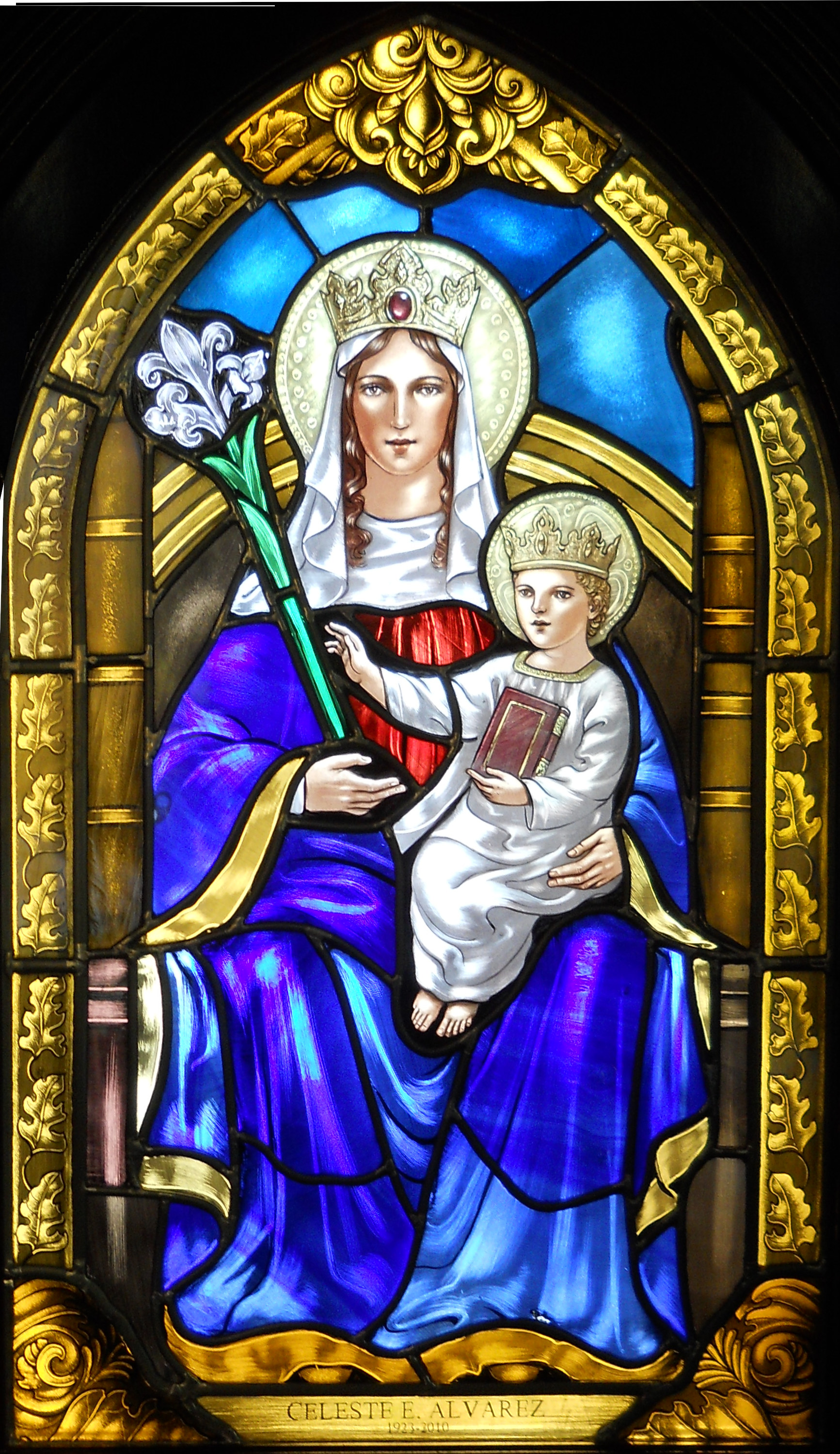 All Saints Episcopal Church, Waveland (Jensen Beach, Florida): The new Celeste E. Alvarez Memorial Window, depicting Our Lady of Walsingham